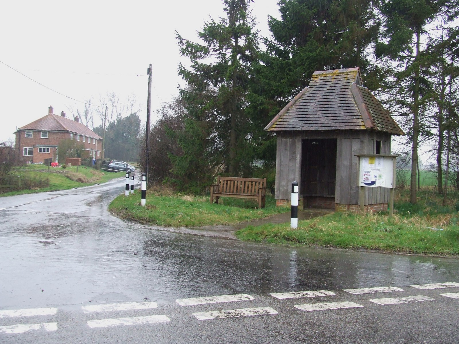 Bus Shelter And Bench Bus shelter and bench All Saints South Elmham, Suffolk.